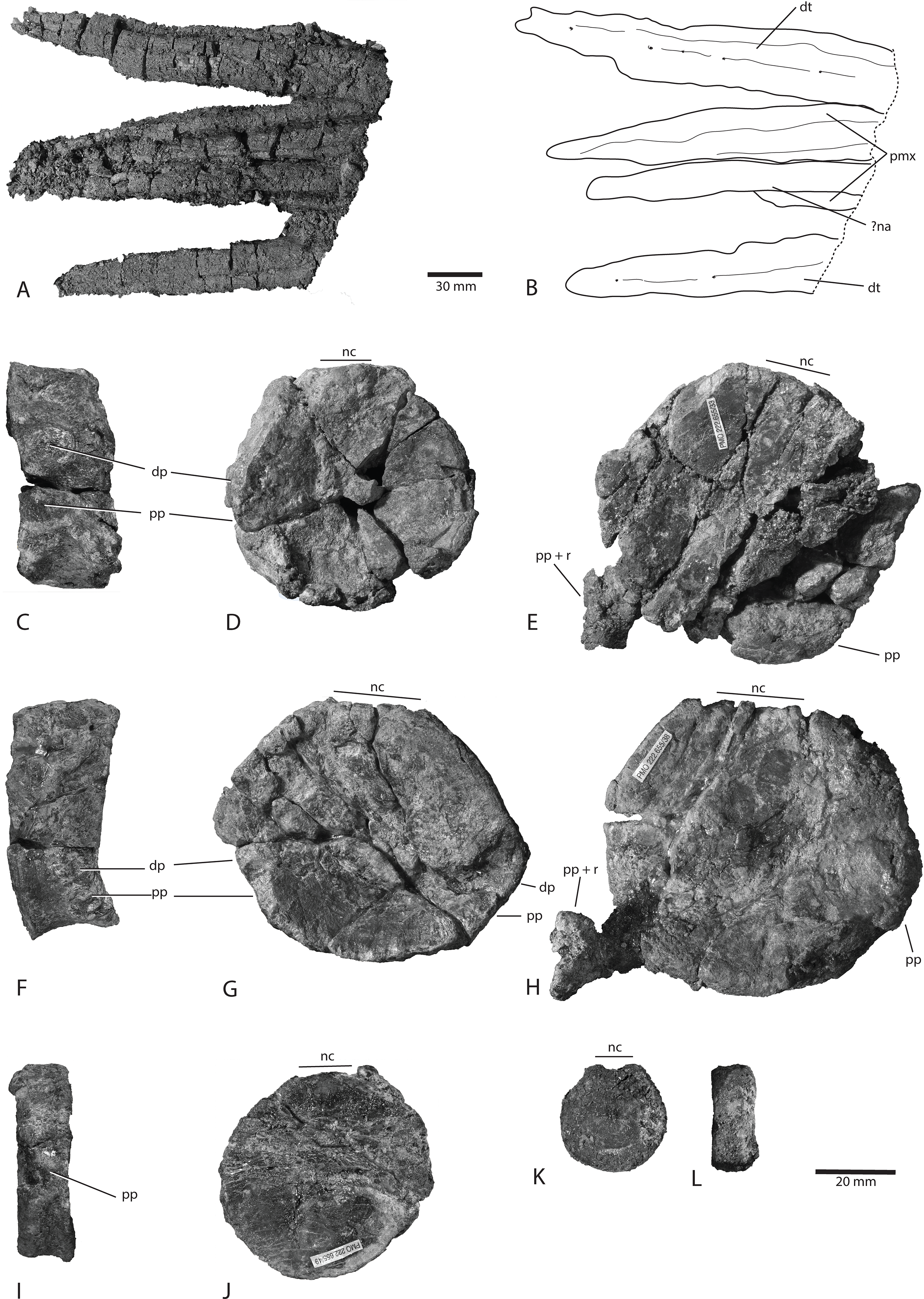 Fig 4. Rostrum and vertebrae of Keilhauia nui (PMO 222.655). Rostrum in A and B; dentaries in lateral view and premaxillae in ventral view. Scale bar equals 30 mm. Vertebra x18 (anterior dorsal) in C left lateral and D posterior views. Vertebra x39 (possible sacral) in E anterior view. Vertebra x29 (posterior dorsal) in F right lateral and G anterior views. Vertebra x54 (anterior caudal) in H anterior view. Vertebra x64 (caudal) in I lateral and J? anterior views. Vertebra x72 (fluke) in K anterior or posterior and L lateral views. Vertebrae numbers do not correspond to actual position in the vertebral column. Scale bar for C-L equals 20 mm. Abbreviations: dp diapophyses, dt dentary, na nasal, nc neural canal, pmx premaxilla, pp parapophyses, r rib.